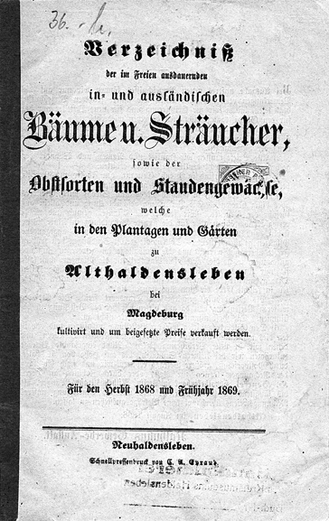 catalogue of Nathusius tree nursery from 1868